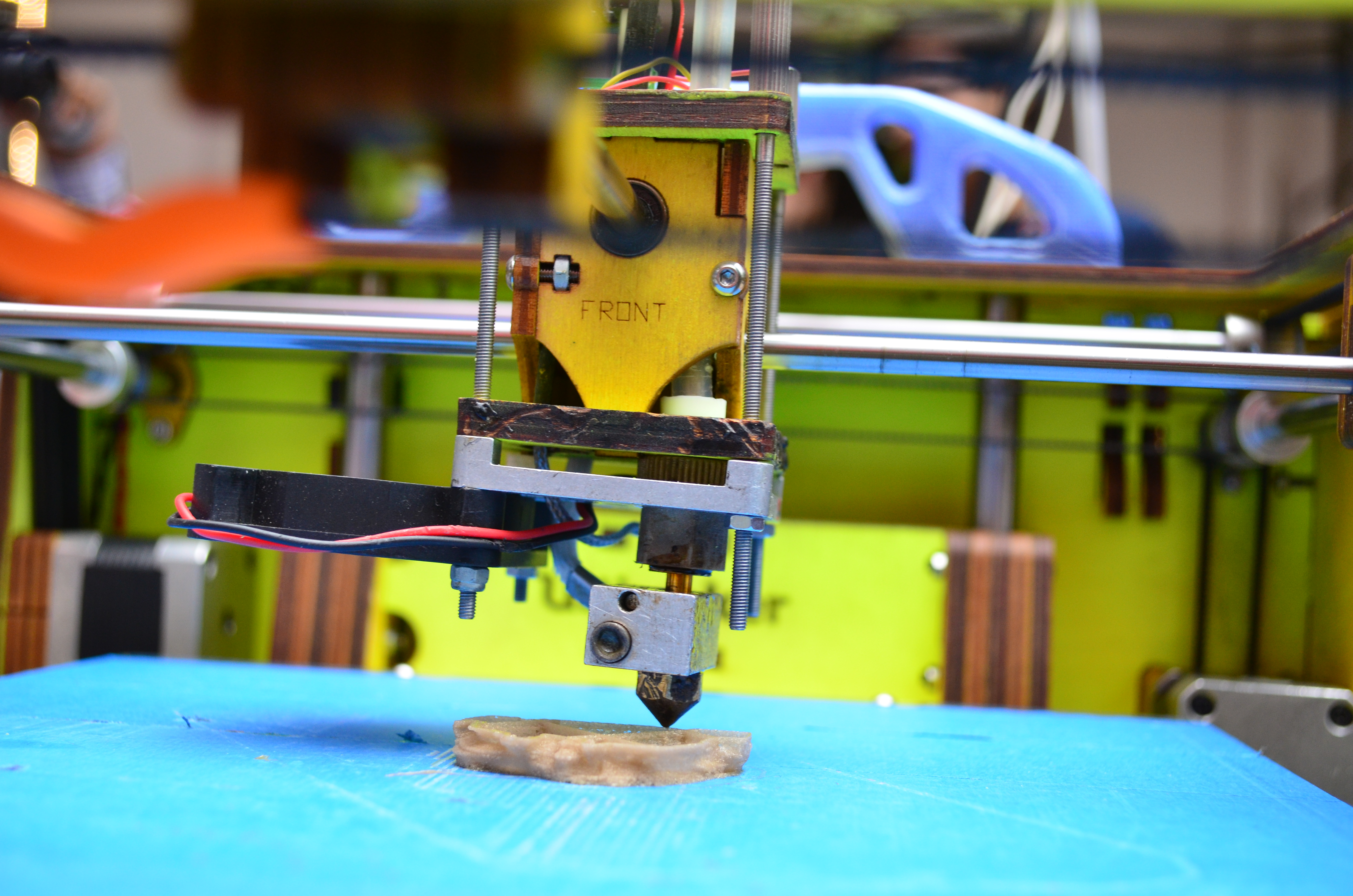 Printing going on with a 3D printer at Makers Party. Makers Party is a collaborative event cohosted by Mozilla India and Hive Learning Network for inviting together local organizations in a science fair setting, Demos of cool ideas, Fun hands-on activities and Get introduced to hacking. It was organized on 7th September 2013 at Jaaga.